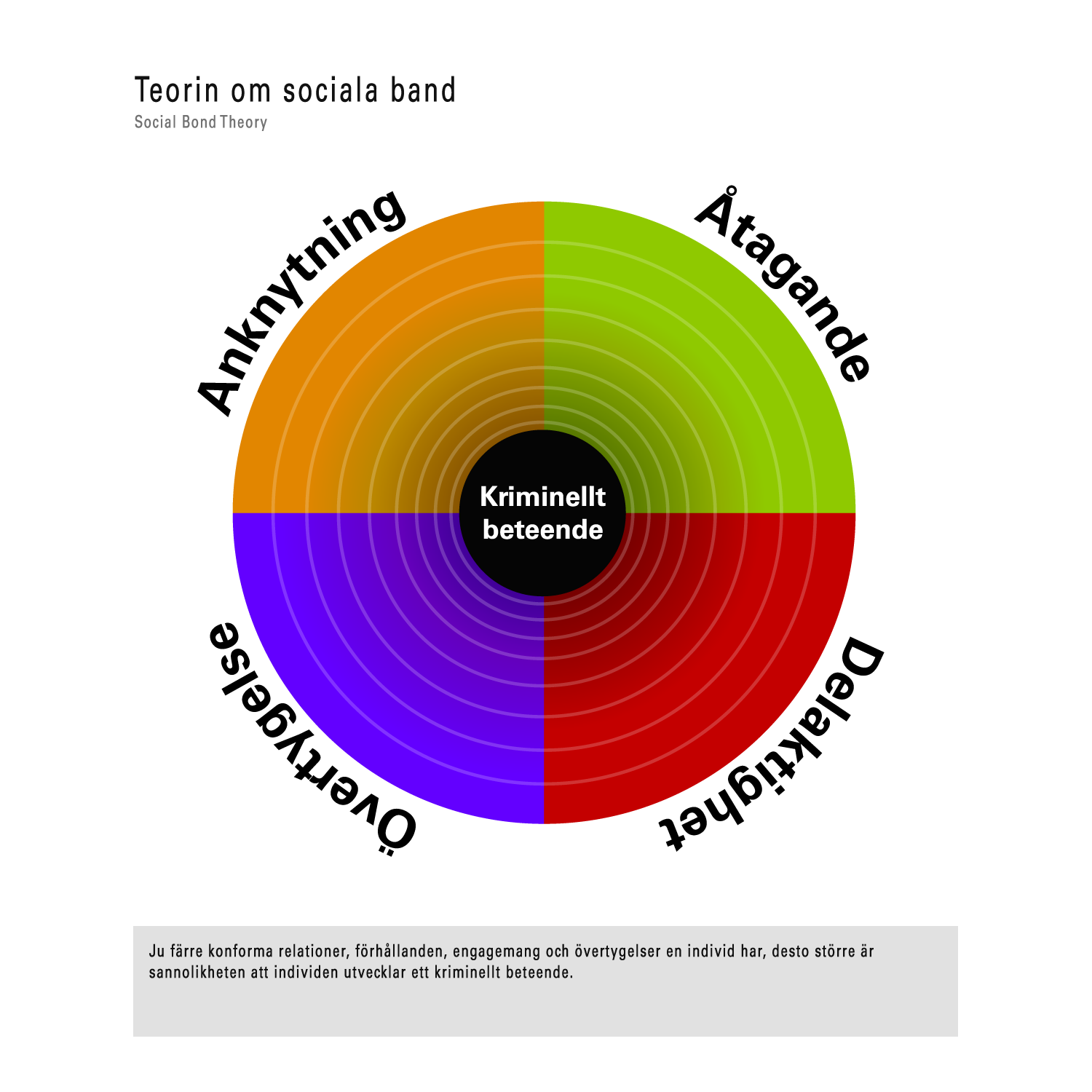 Bilden är en illustration av de sociala banden i sociala bandteorin.